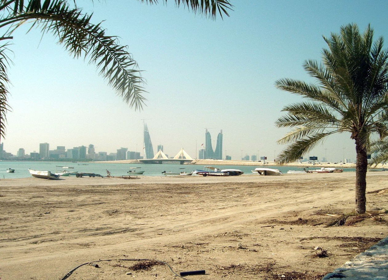 Coastal area in Bahrain.